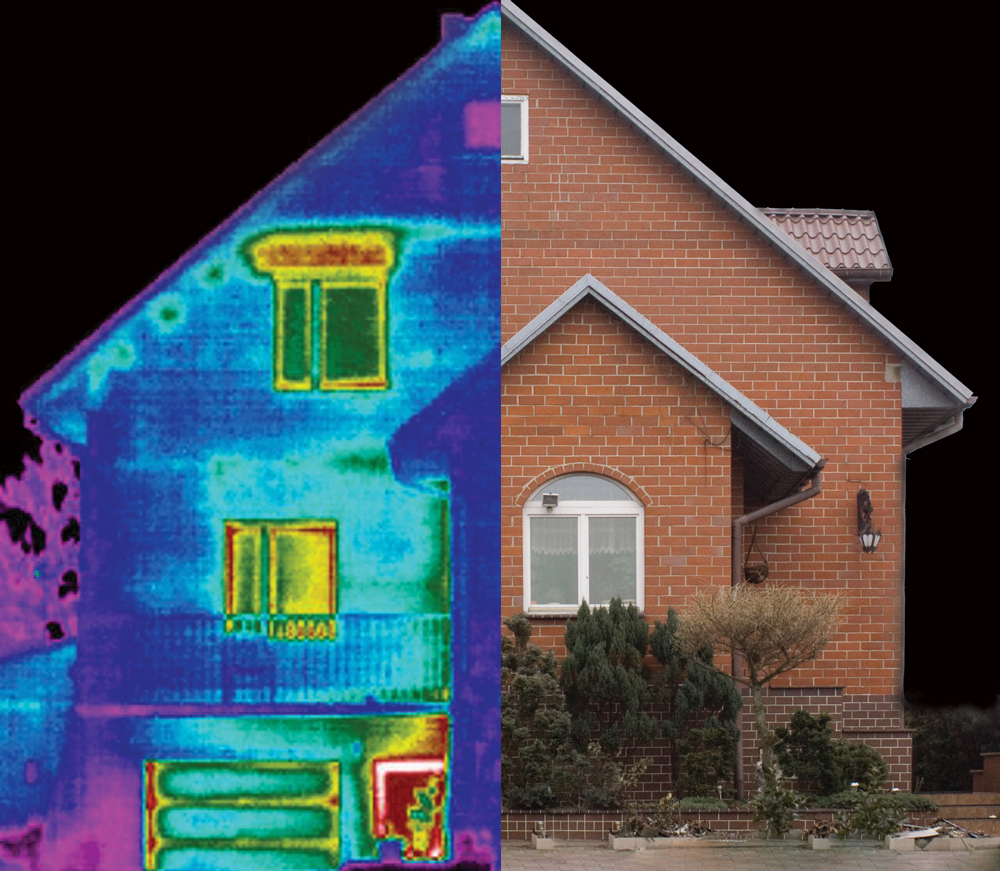 Thermovision